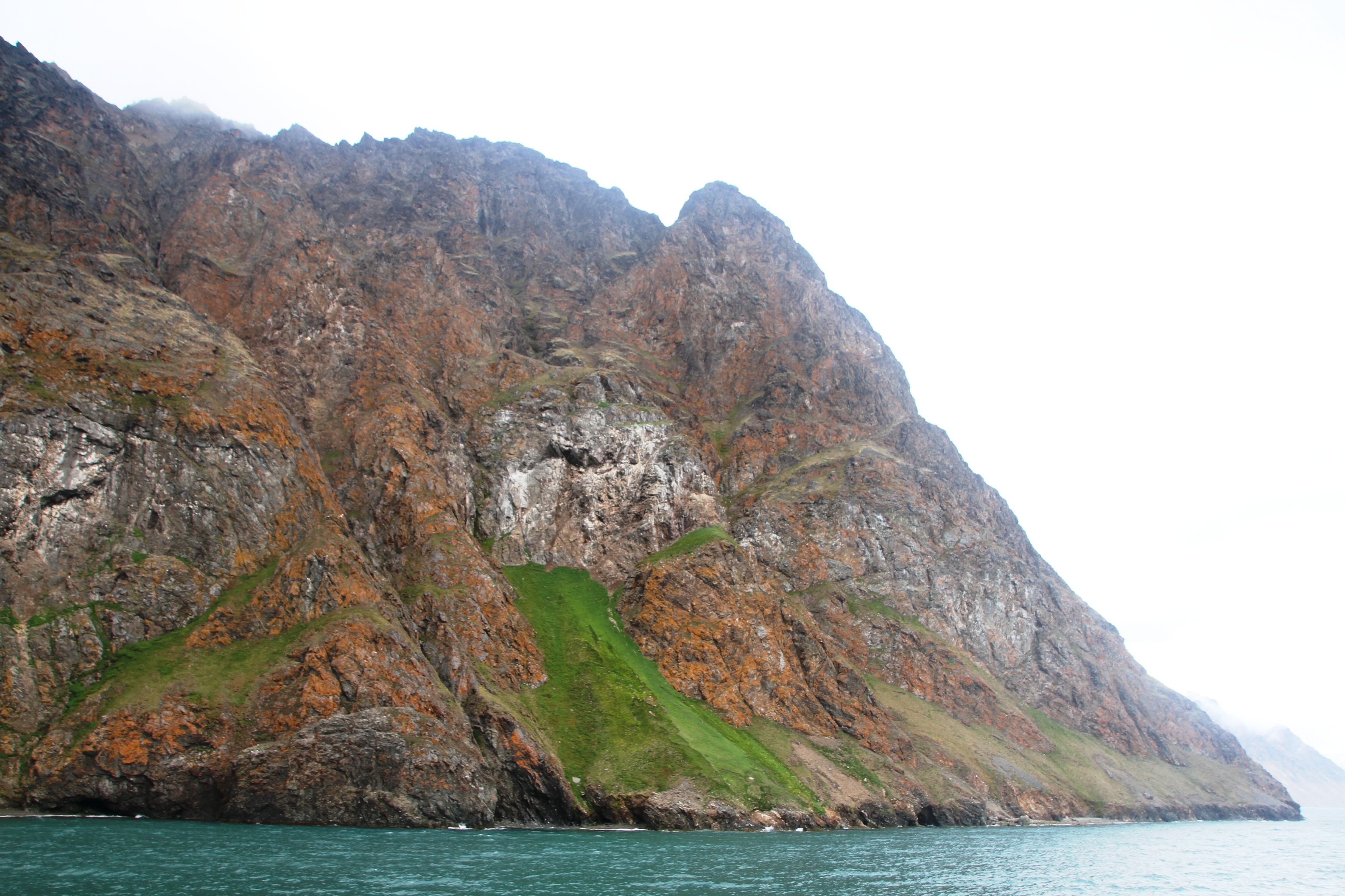 The Krossfjorden waters in Haakon VII Land, with King haakon peninsula and surroundings, western Spitsbergen, Svalbard.